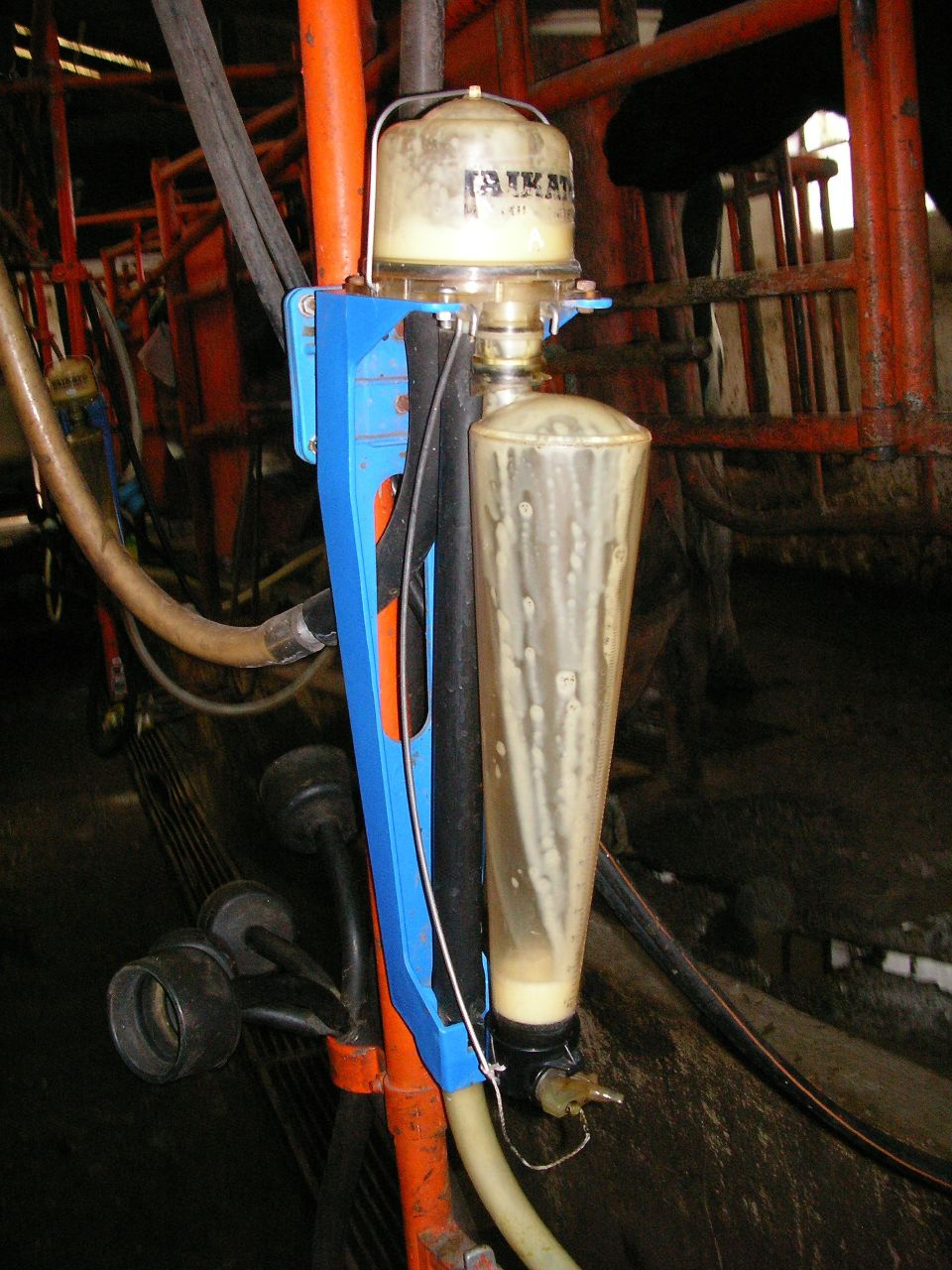 Equipment in the milking parlour at El Chaupi organic dairy farm, Ecuador